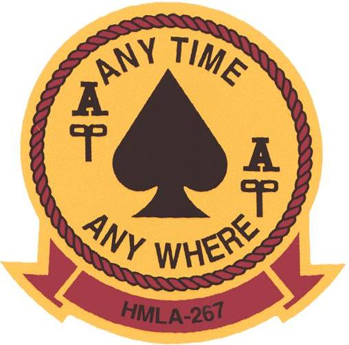 HMLA-267 Squadron Logo